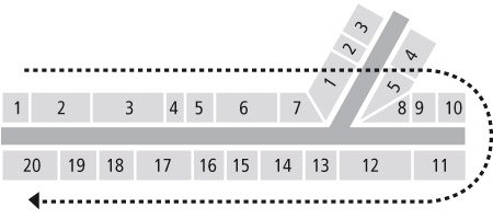 Diagram showing a clockwise kind of house numbering.